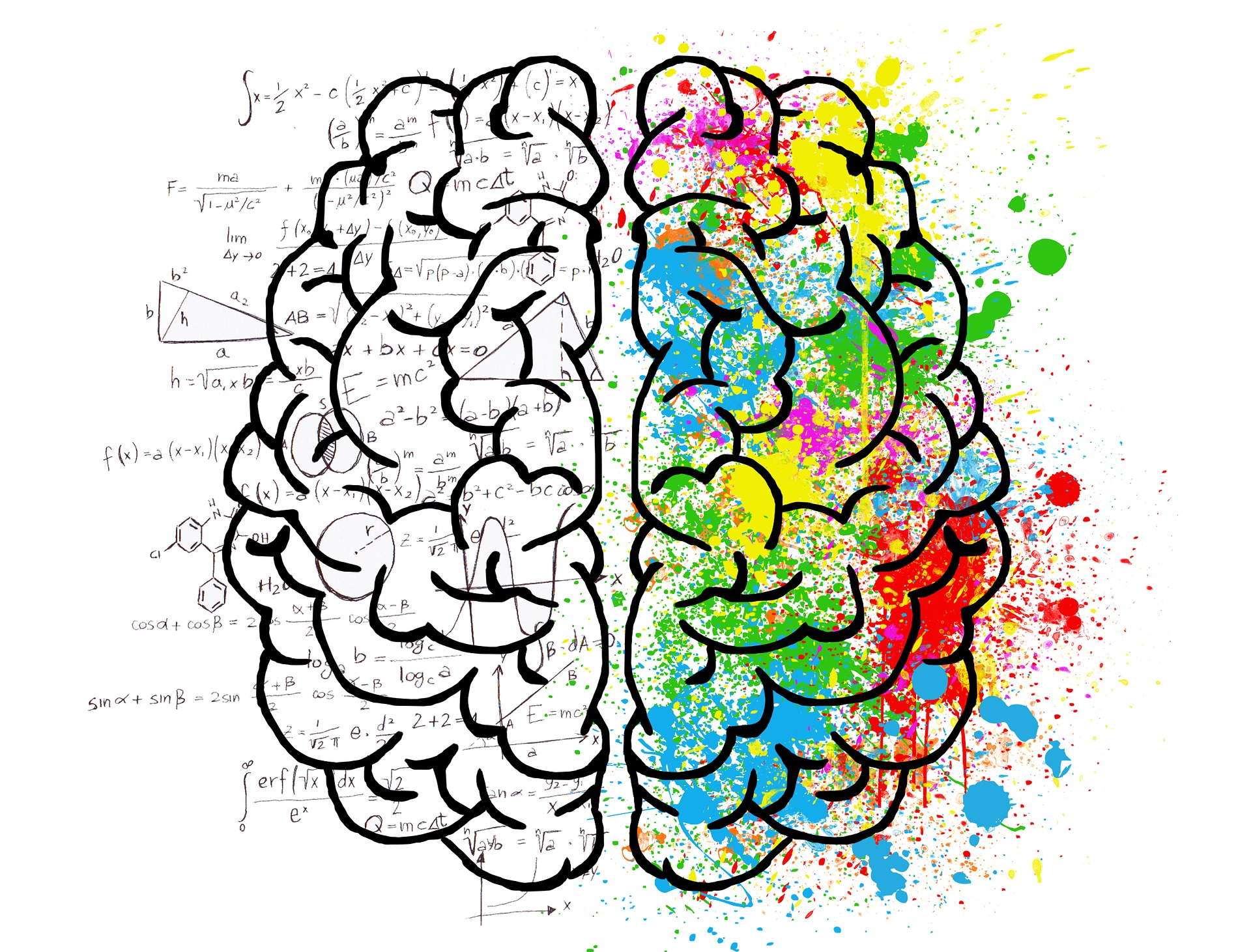 An image showing a psychological division of the cerebral brain hemispheres